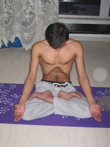 Bahaya pranayama is being demonstrated by Dr.Chirag Patel at his home-shenyang,china